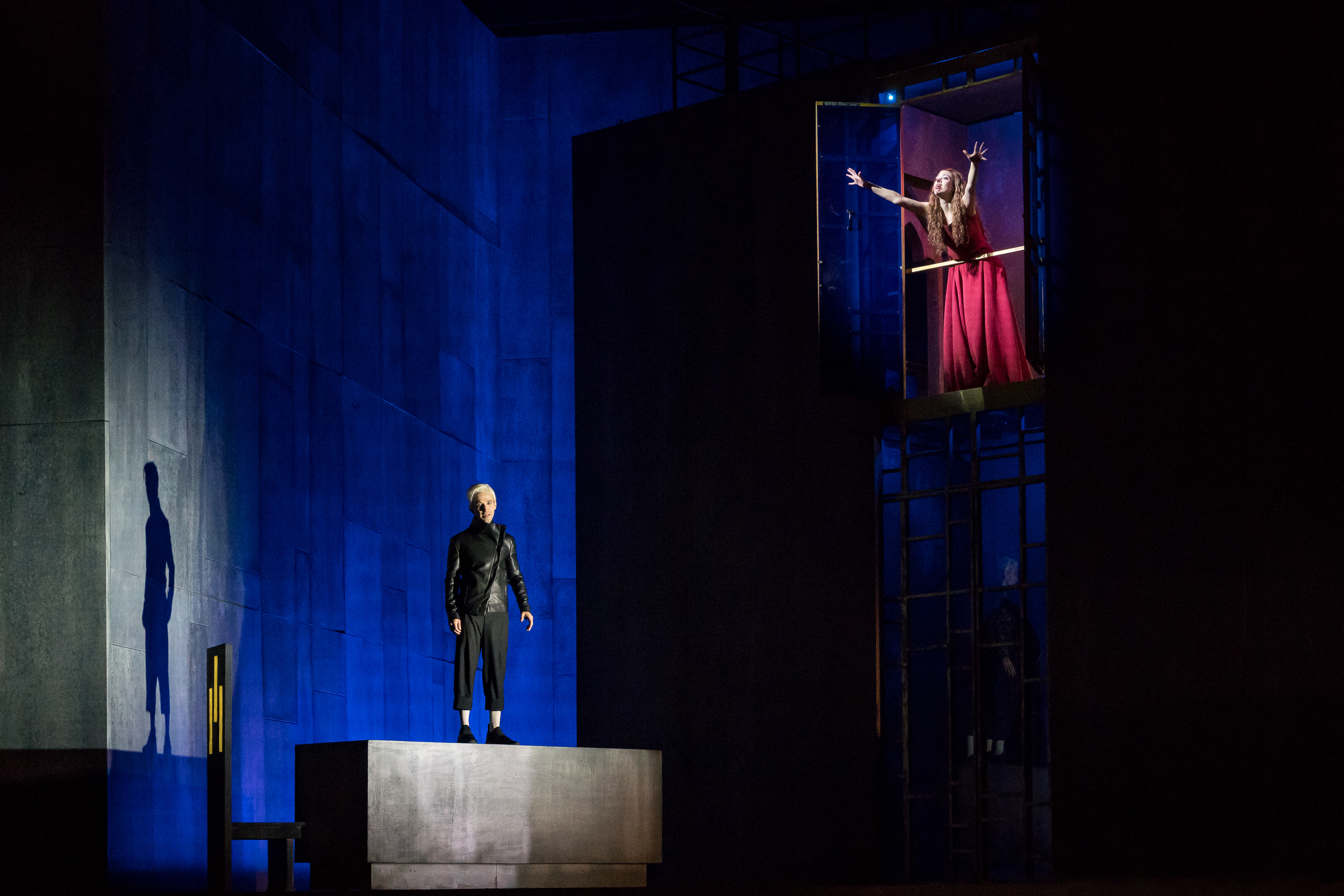 Academy of Music Philadelphia, PA An opera by George Benjamin and Martin Crimp. Photo by Steven Pisano